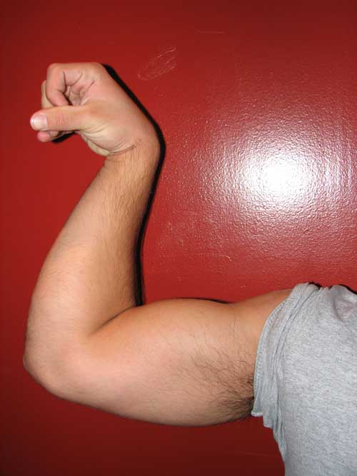 Flexed biceps brachii muscle, with the forearm pronated. Photo of right arm of male 27 year old wrestler. (27K) See also the related image Image:Arm flex supinate.jpg.